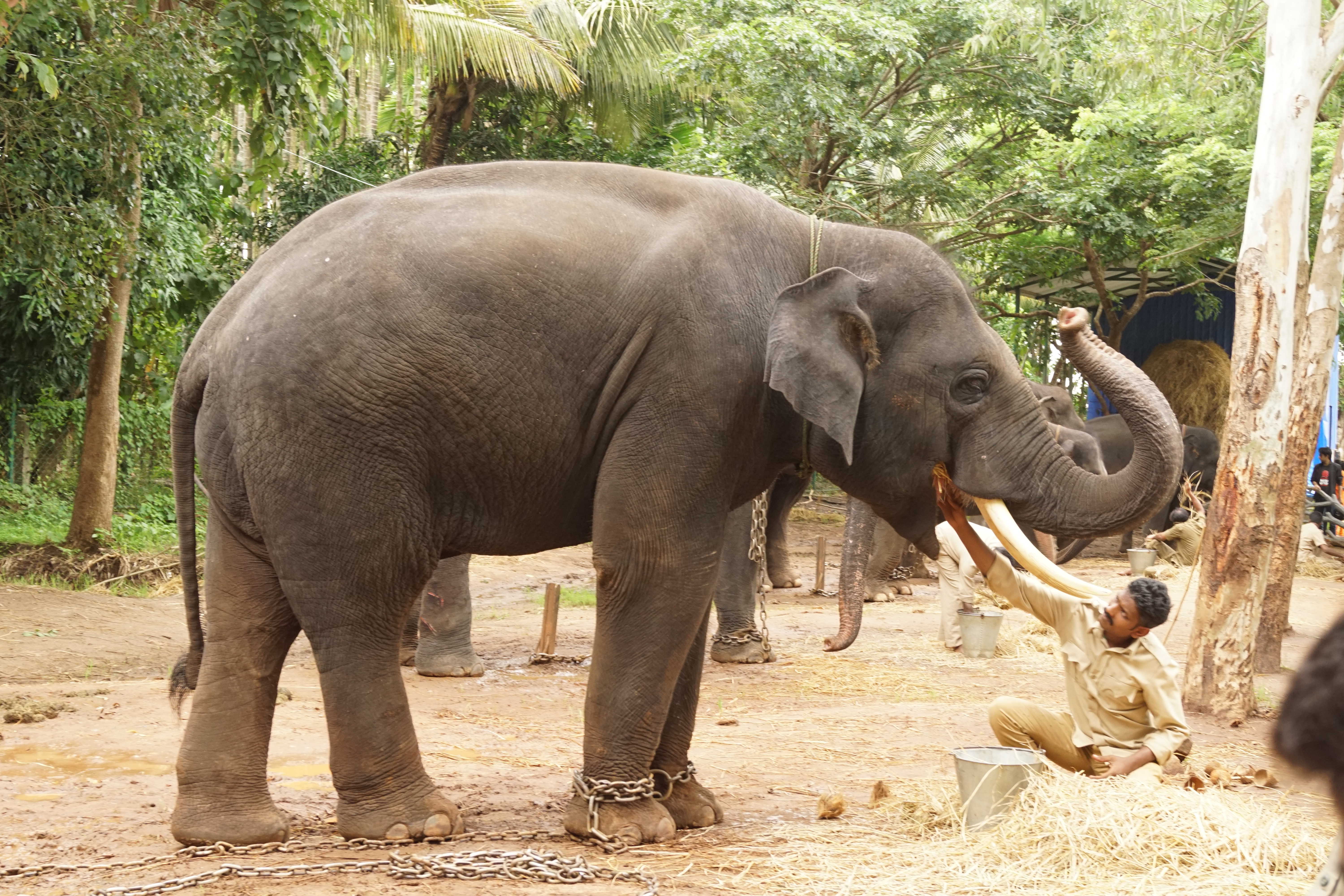 Elephant Camp